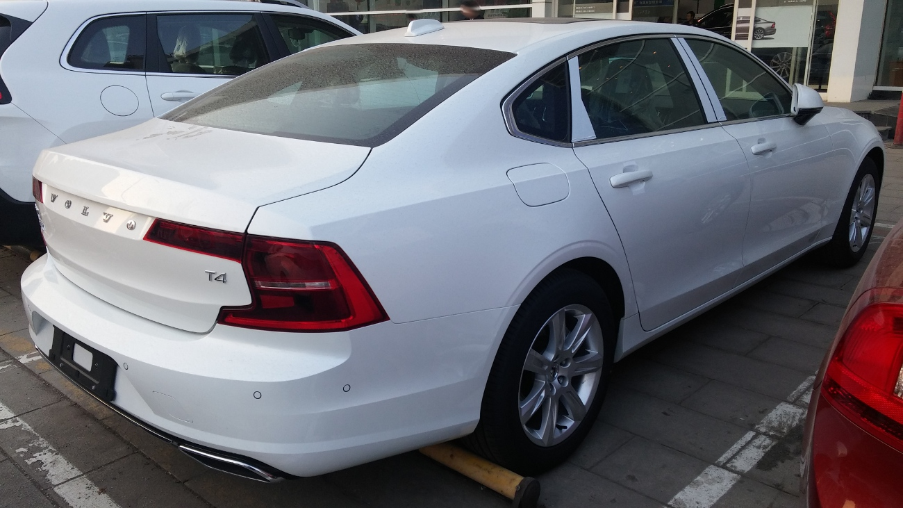 Volvo S90 II photographed in Shenyang, Liaoning province, China.